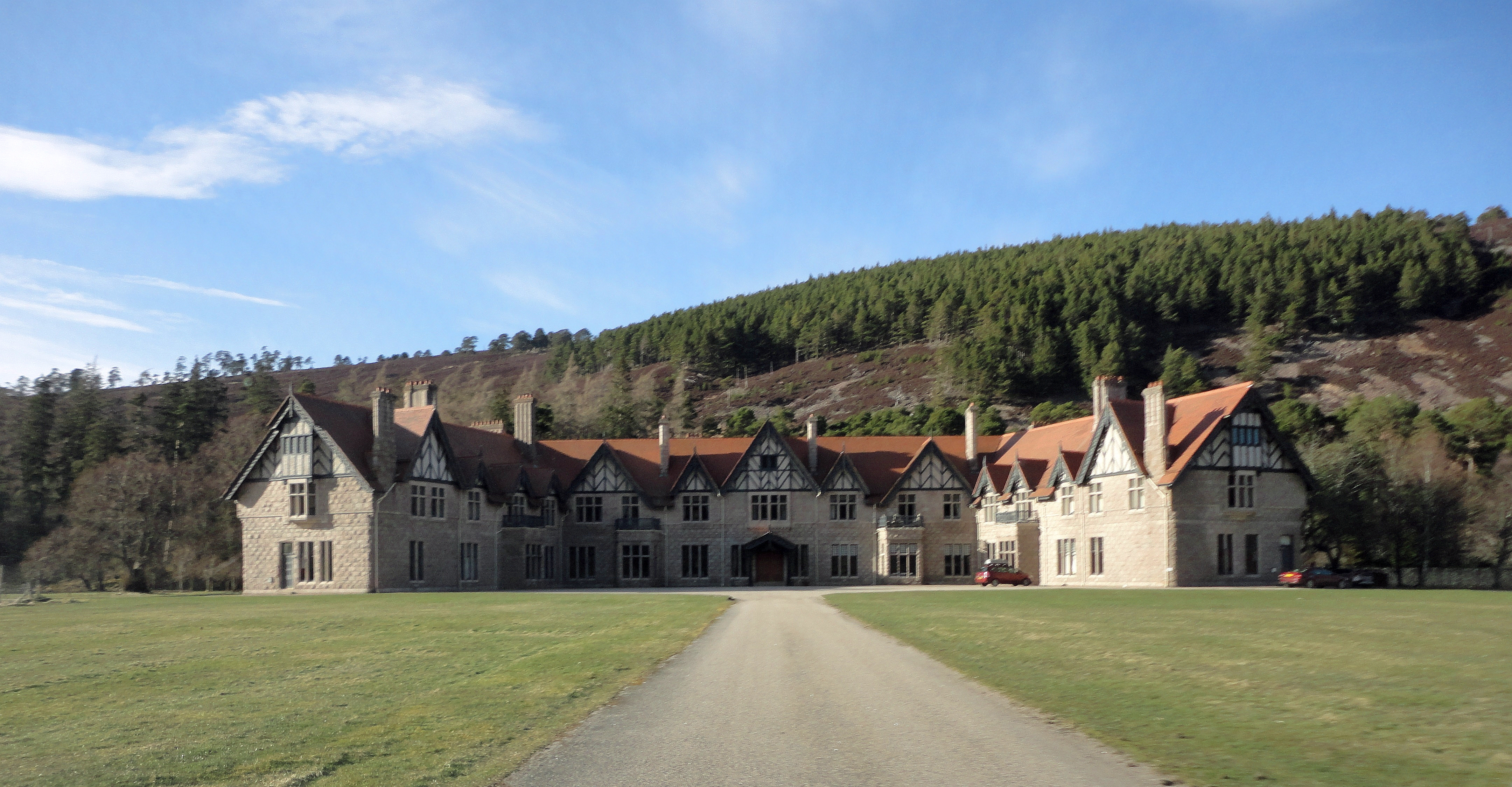 Mar Lodge (located on the Mar Lodge Estate, Braemar)